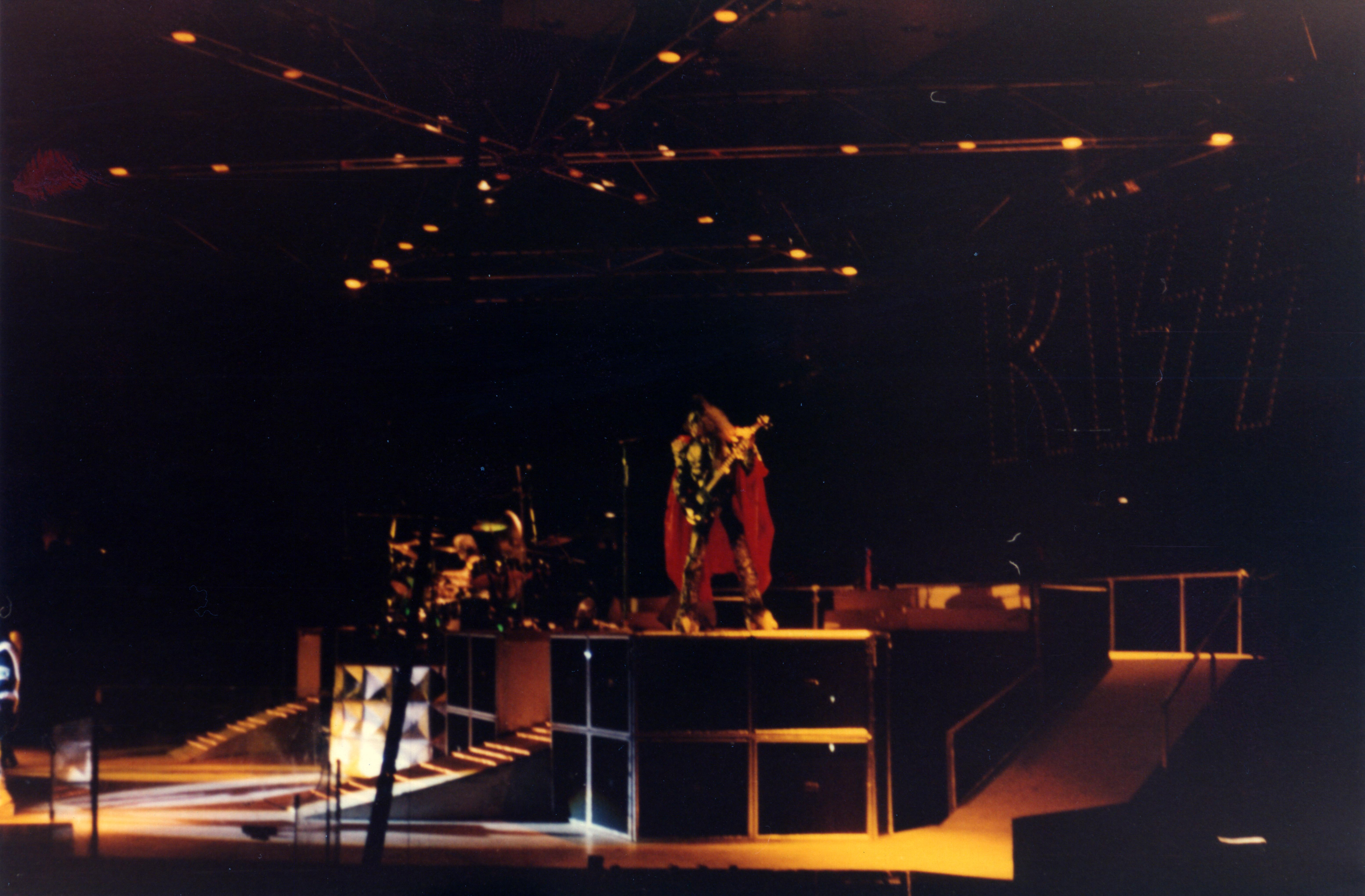 Gene Simmons live with KISS in 1979.